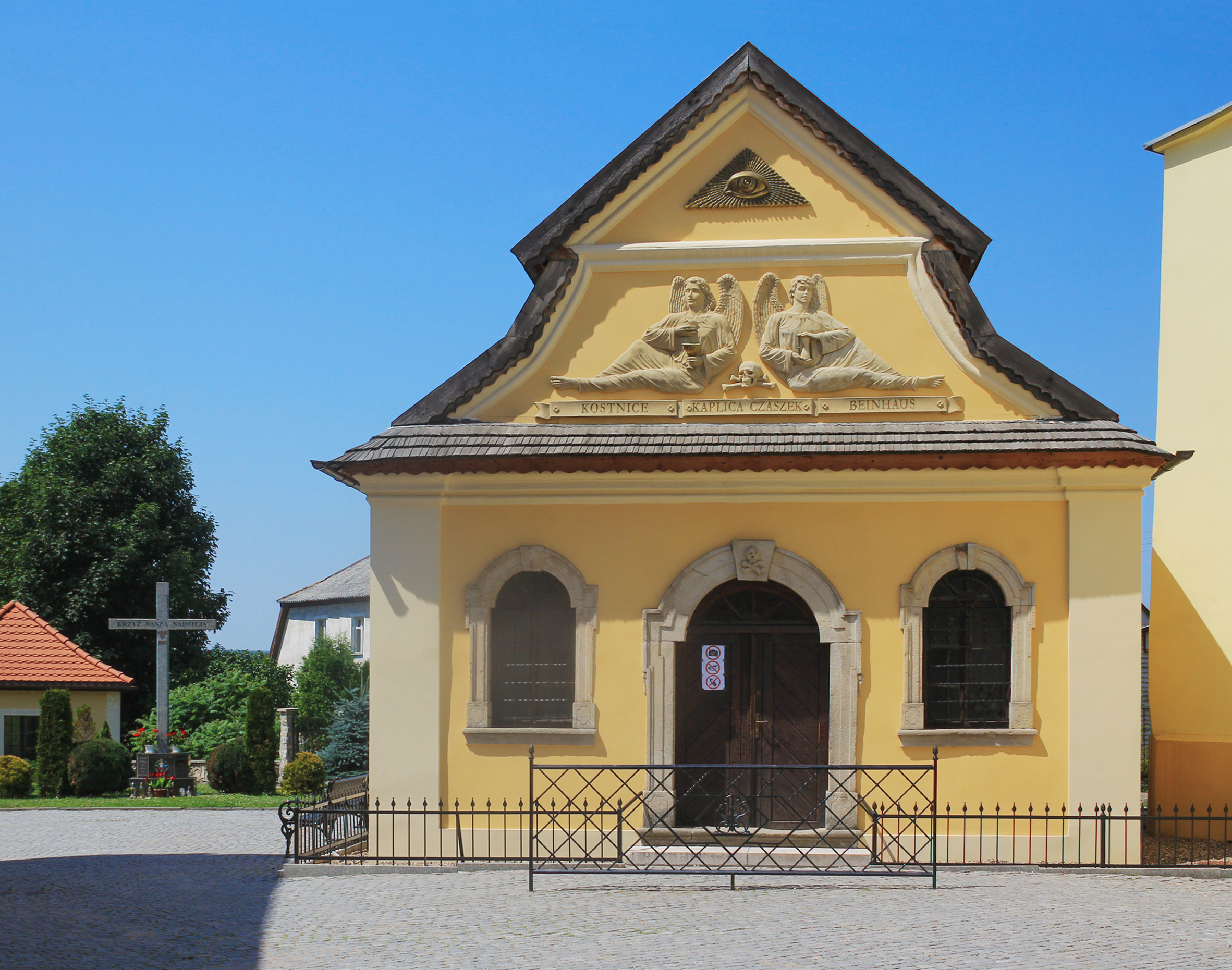 Skull Chapel in Czermna, part ot spa town Kudowa-Zdrój, south Poland